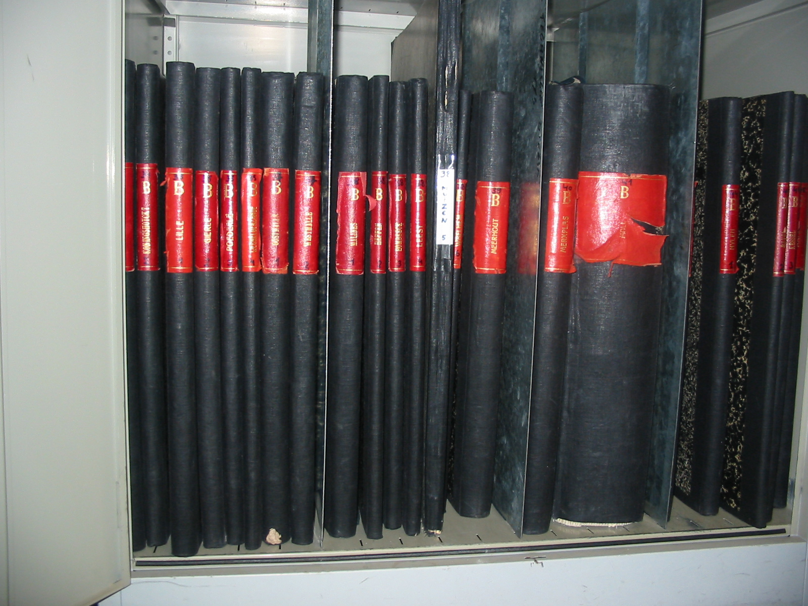 DIfferent atlasses of vicinal roads stored in a shelf